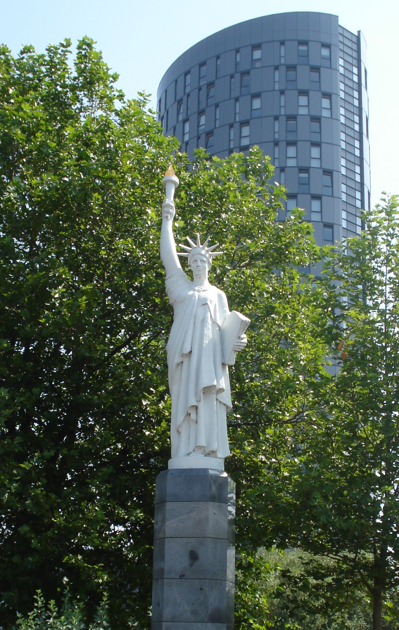 When men yield up the privilege of thinking, the last Shadow of Liberty quits the horizon. Thomas Paine, 1737 - 1809